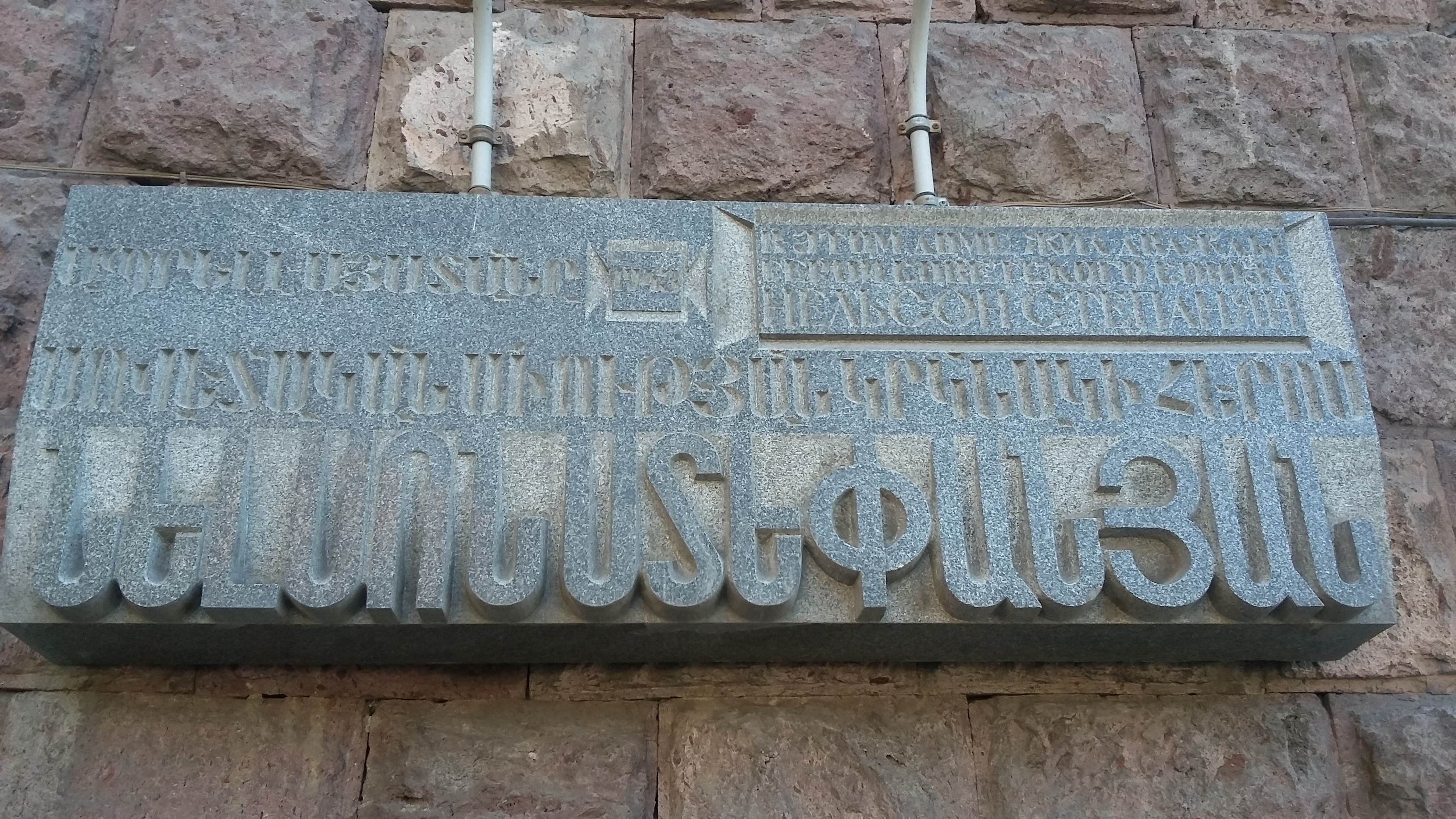 Mashtots Avenue Yerevan